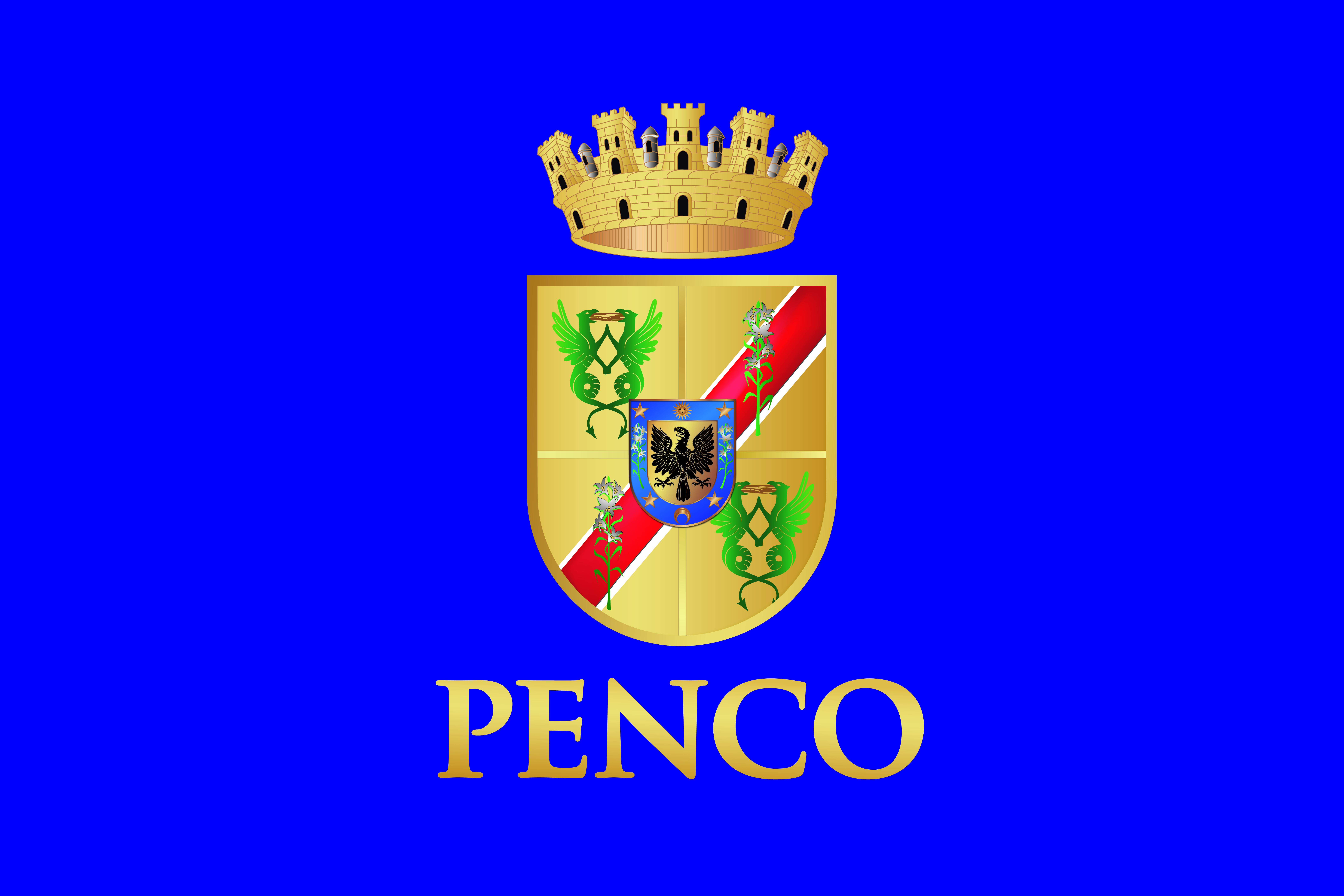 Flag of the City of Penco